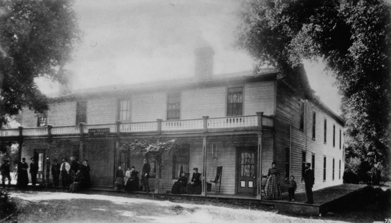 Ojai Inn (Ojai Valley House) built by R. G. Dresdon in 1876, Ojai, California, circa 1880.